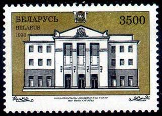 Stamp of Belarus